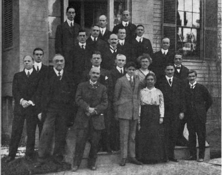 Eighteen men and two women stand for a group photograph outside Harvard College Observatory in 1916.